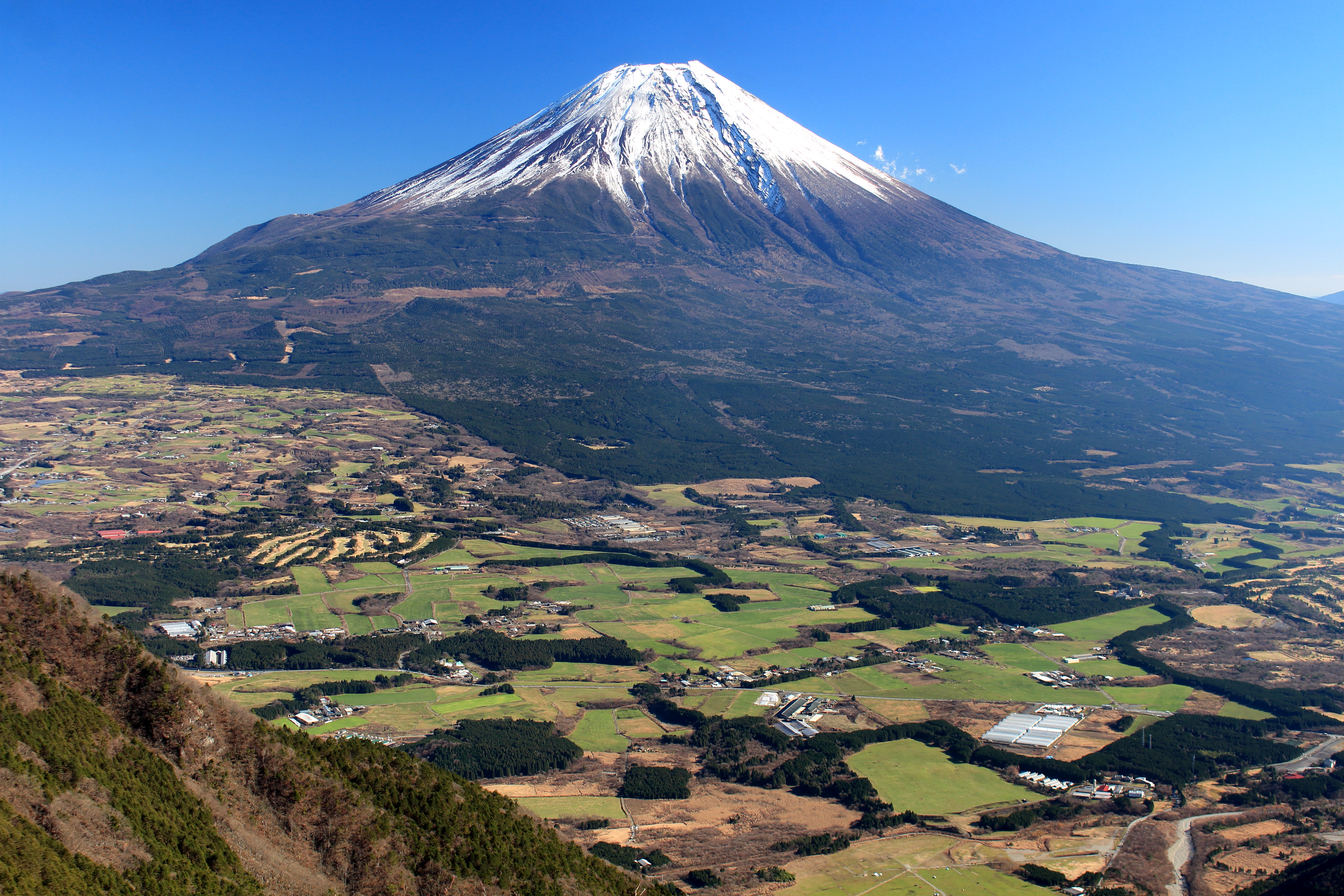 Asagiri Highland and Mount Fuji seen from Mount Kenashi, in Fujinomiya, Shizuoka prefecture, Japan.